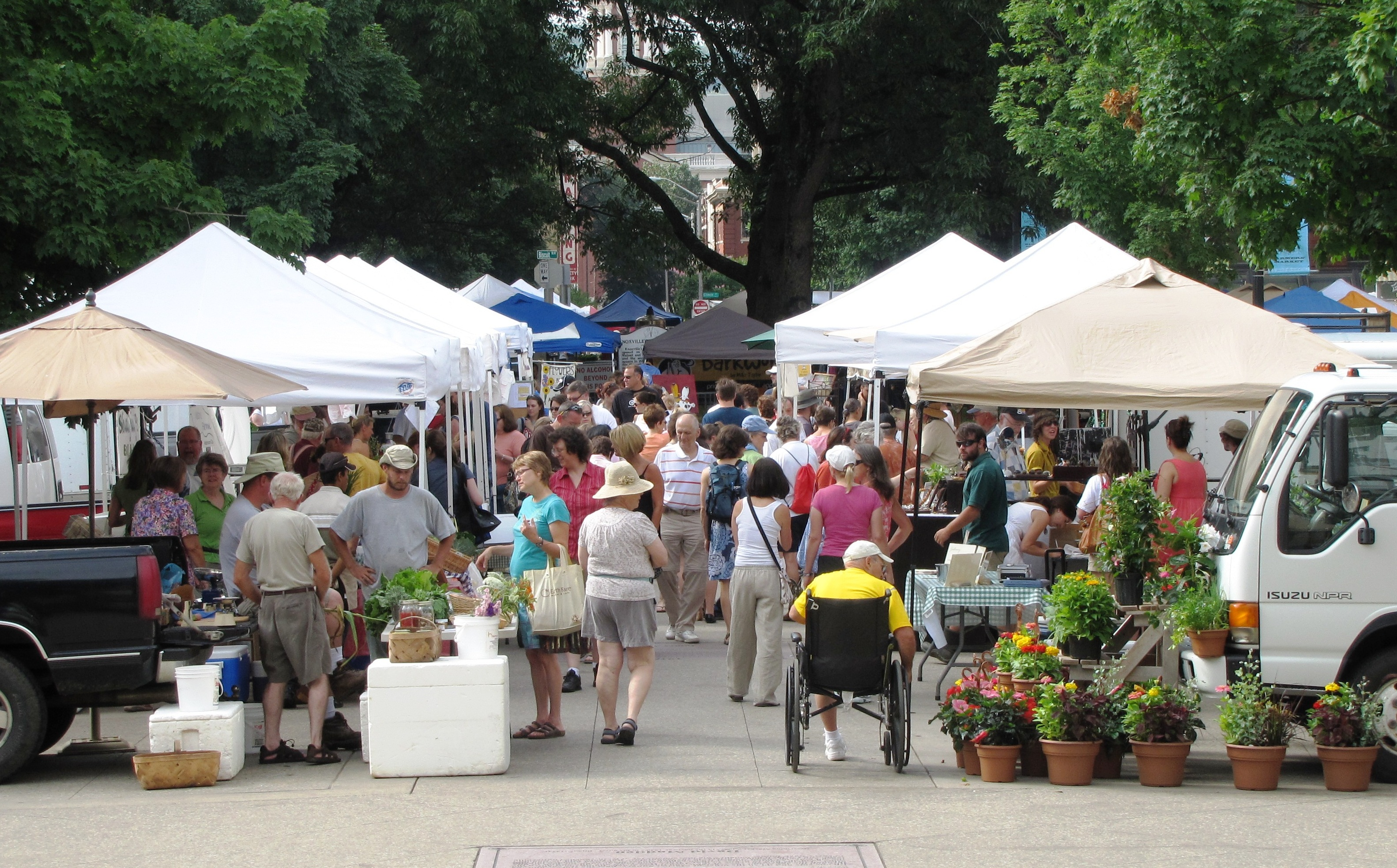 Farmers' Market vendor canopies at Market Square in Knoxville, Tennessee, USA.